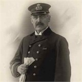 Photo of Johan Axel Fredrik Arsenius (1858-1946)